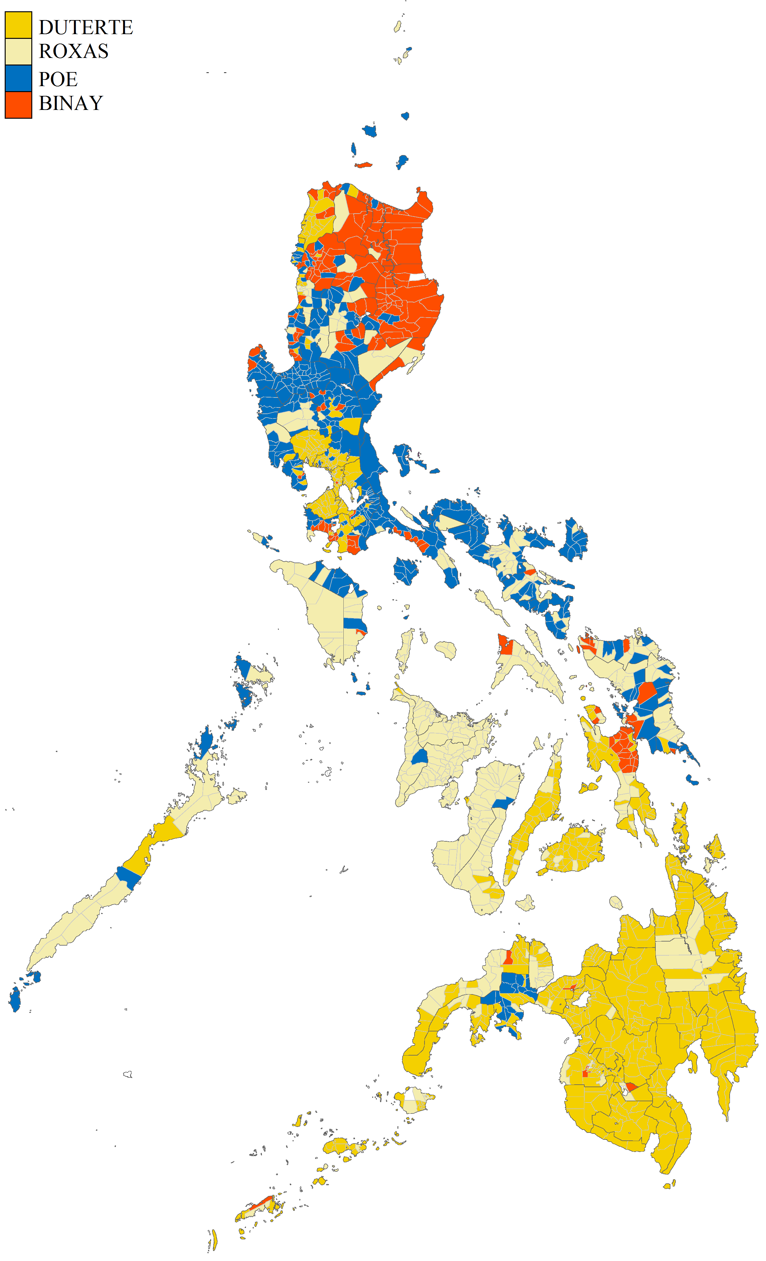 Municipal level breakdown of the presidential race